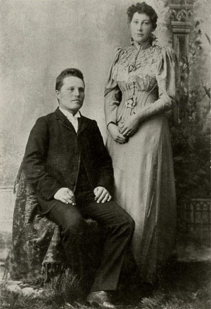 Wedding photograph of Gaskell Romney and Anna Pratt